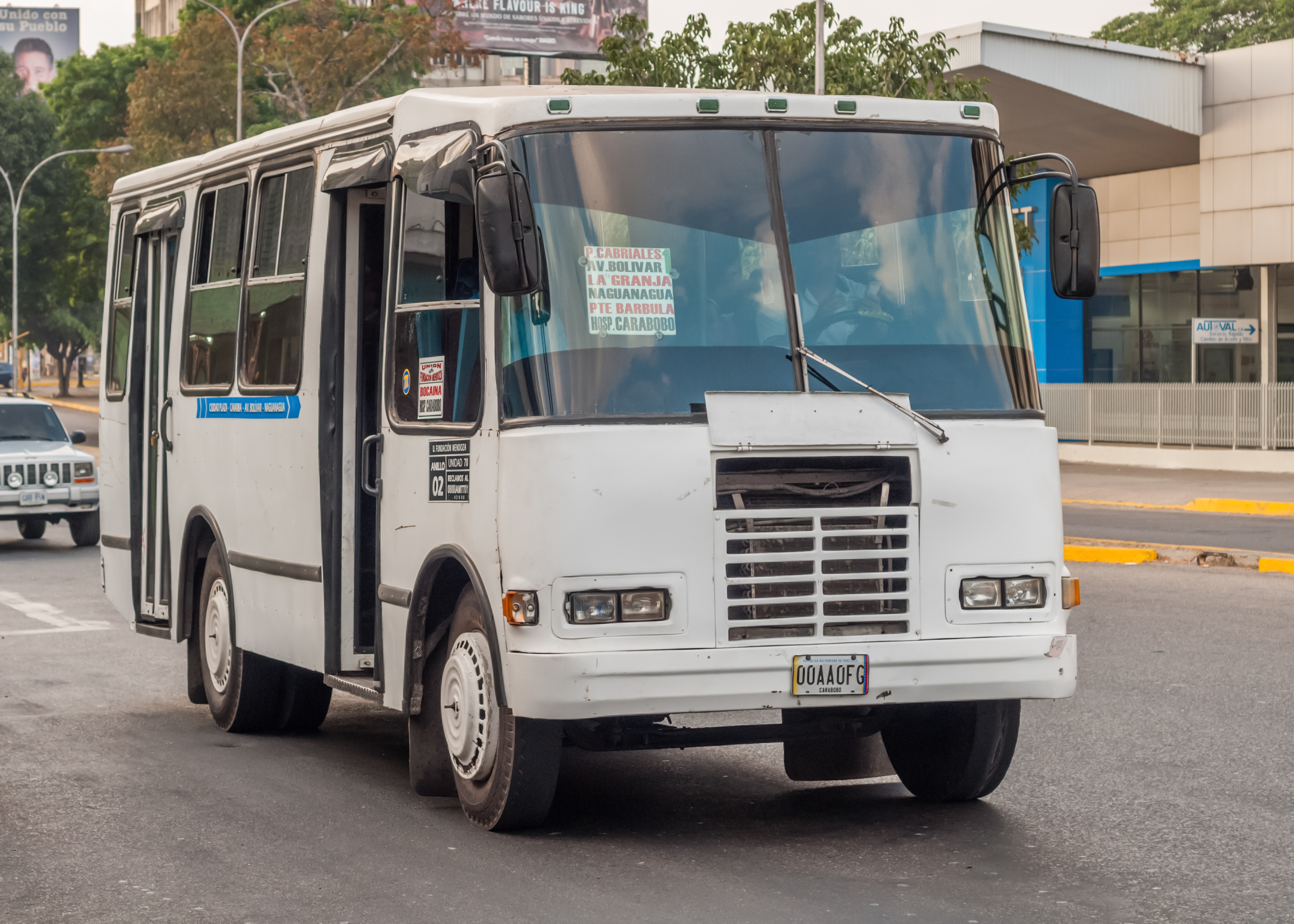 Transport in Valencia